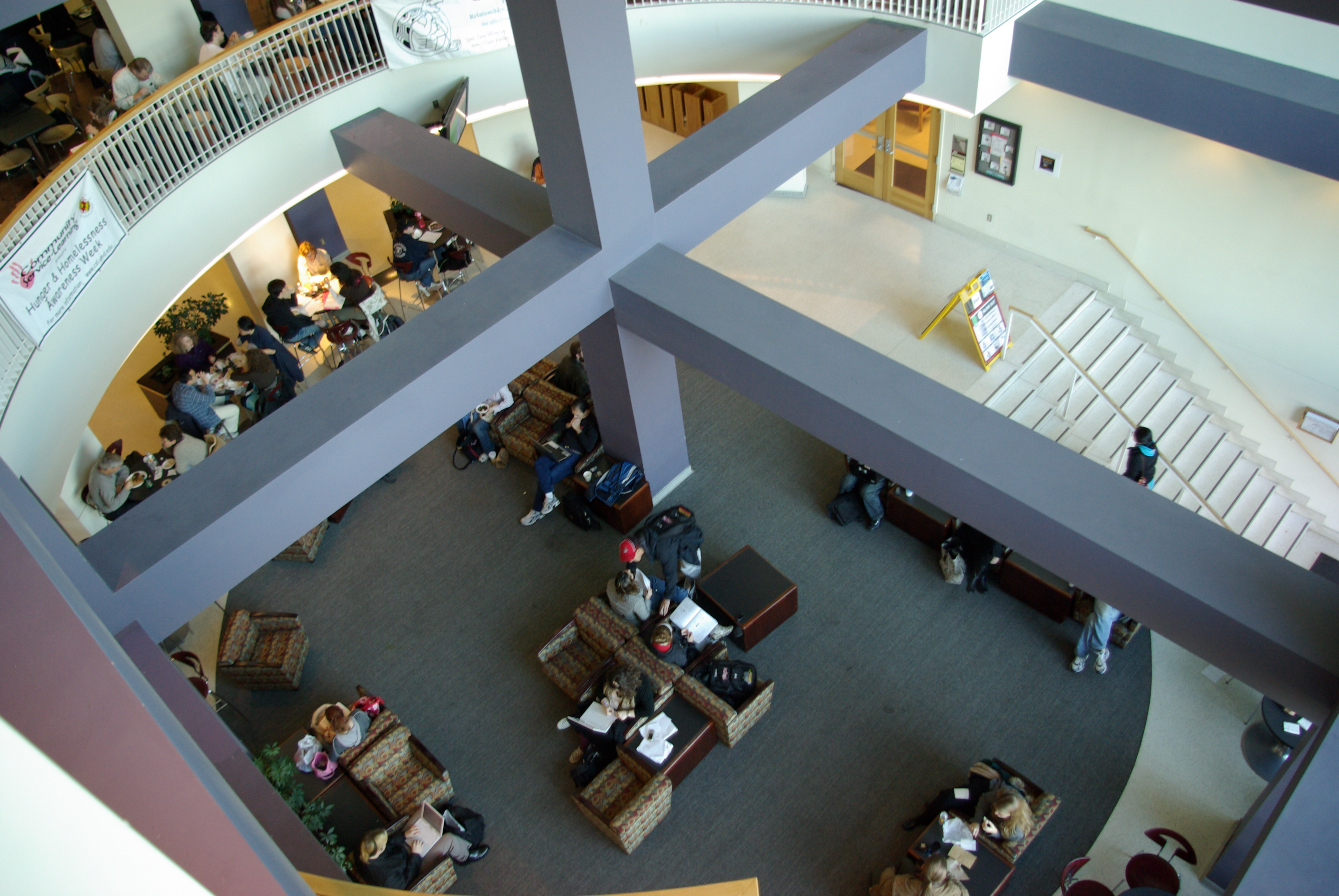 an interesting view of the beams in the multi-story atrium of the Stamp Student Union at the University of Maryland